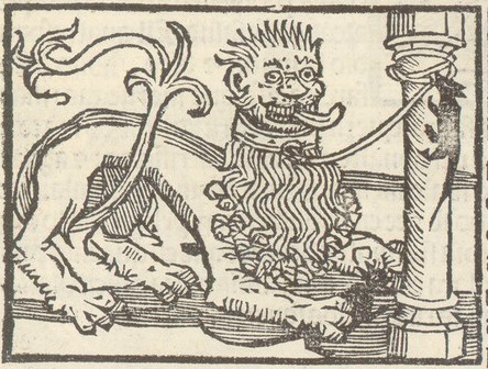 Illustracion de la fabula del leon y el ratton, del Libro del sabio [et] clarissimo fabulador Ysopu hystoriado", Sevilla 1521